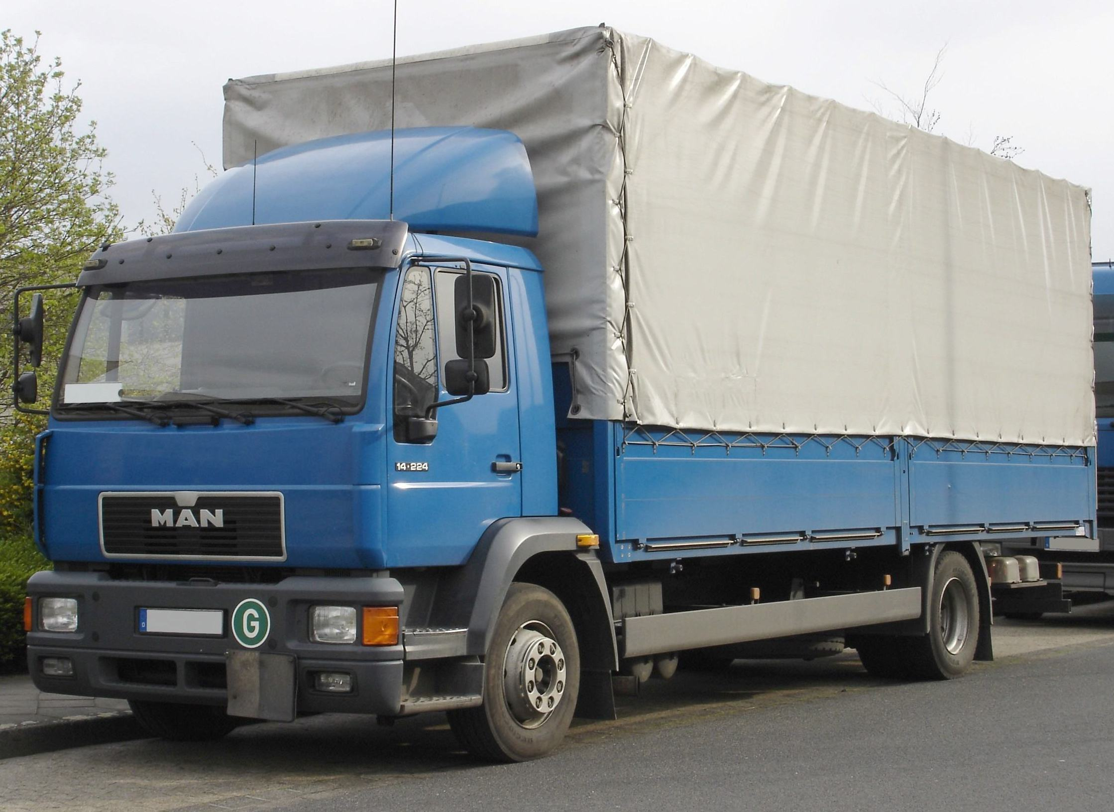 MAN M2000 14.224 truck.